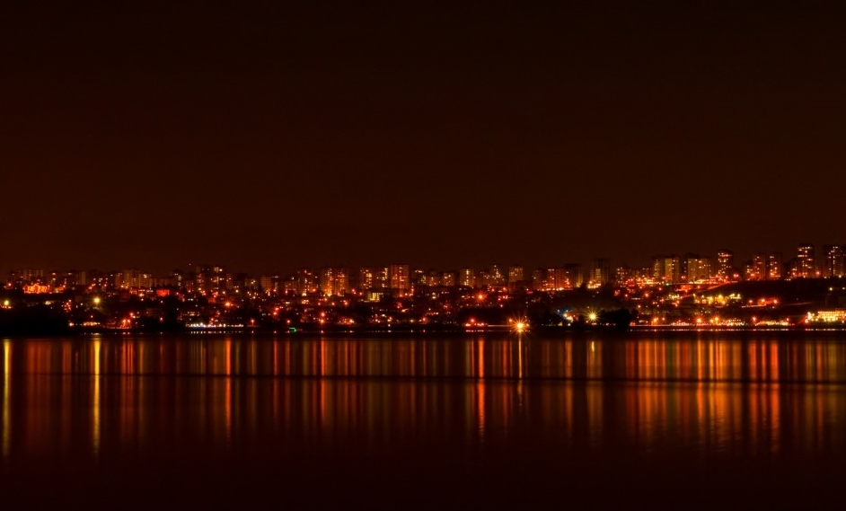 A night in Guzelyali, photo by Hüseyin Kuşdemir.